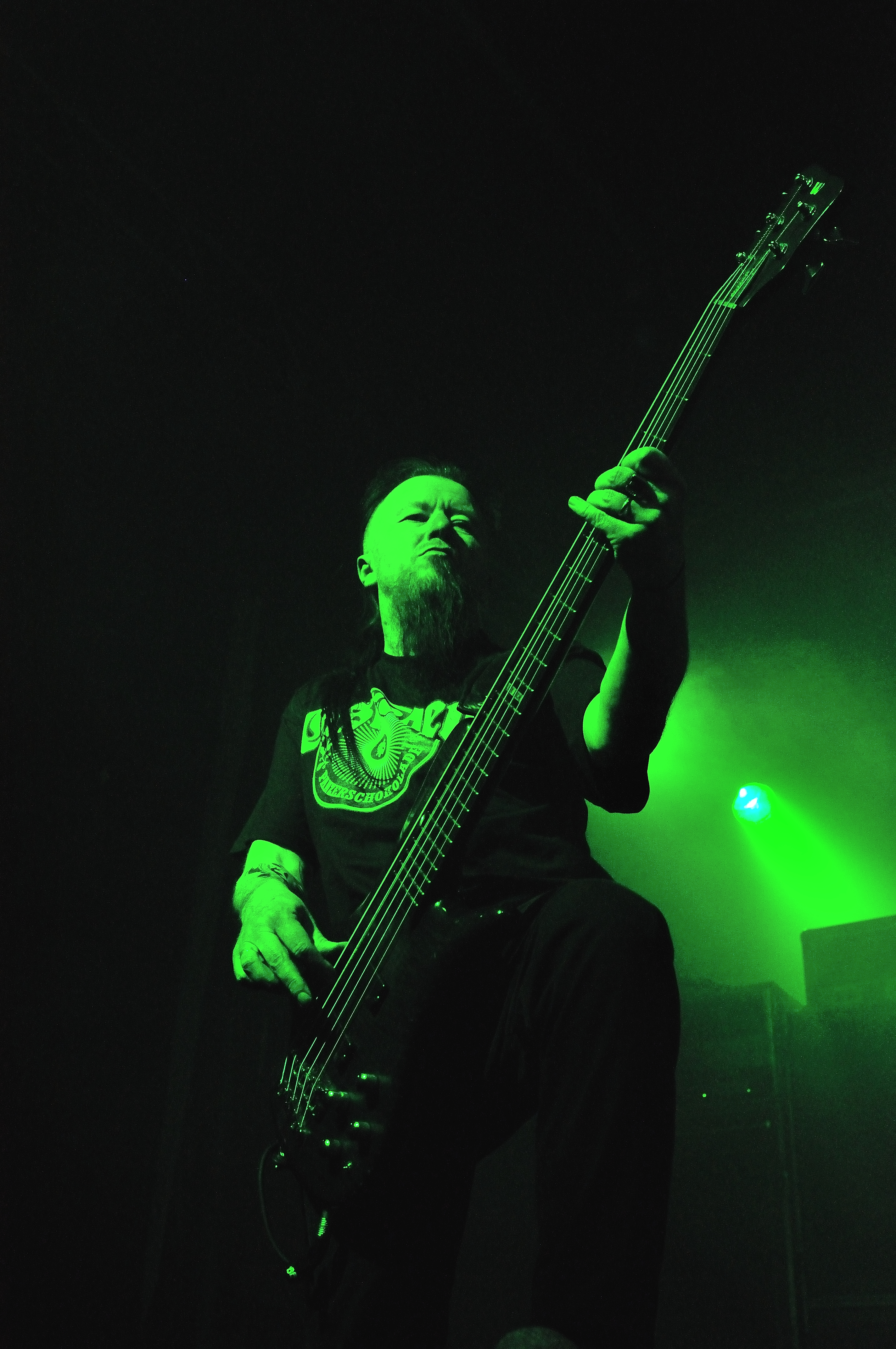 Eisregen at Hatefest 2015 in Berlin.